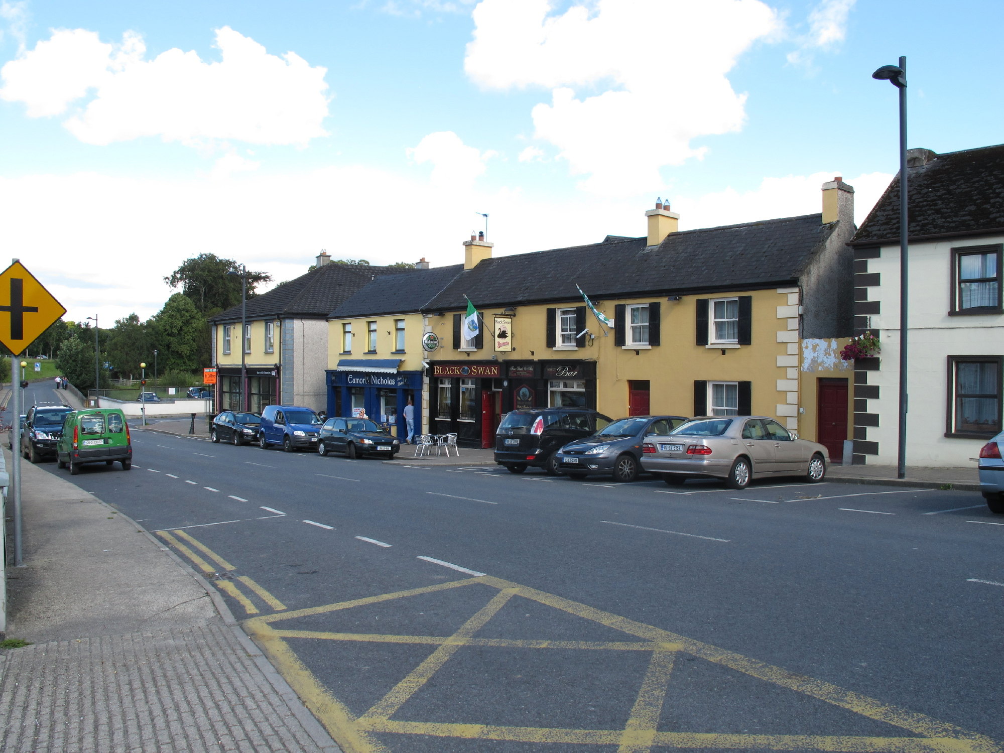 Shops at Annacotty, 4 km from Gilloge Bridge, Clare, Ireland. A row of shops near Annacotty Mill.